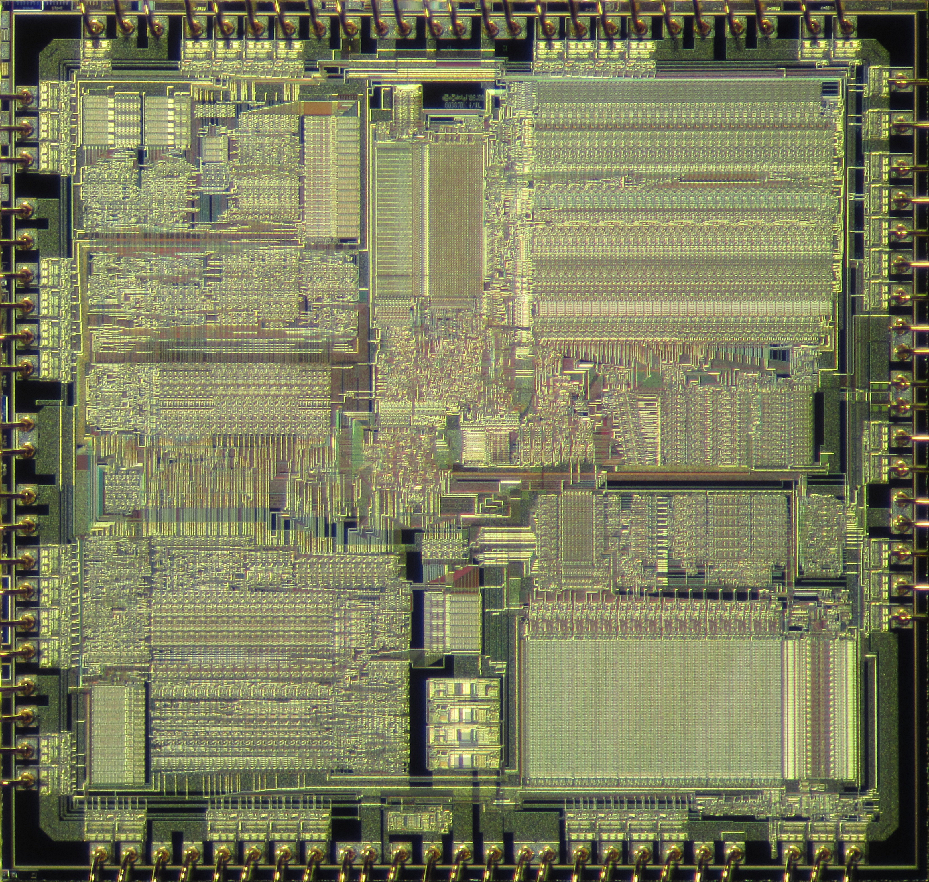 Die shot of Intel 80387 math (floating point) coprocessor (A80387DX 16-33 version).